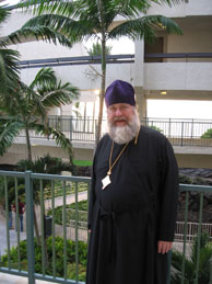 Bishop Benjamin (Peterson)